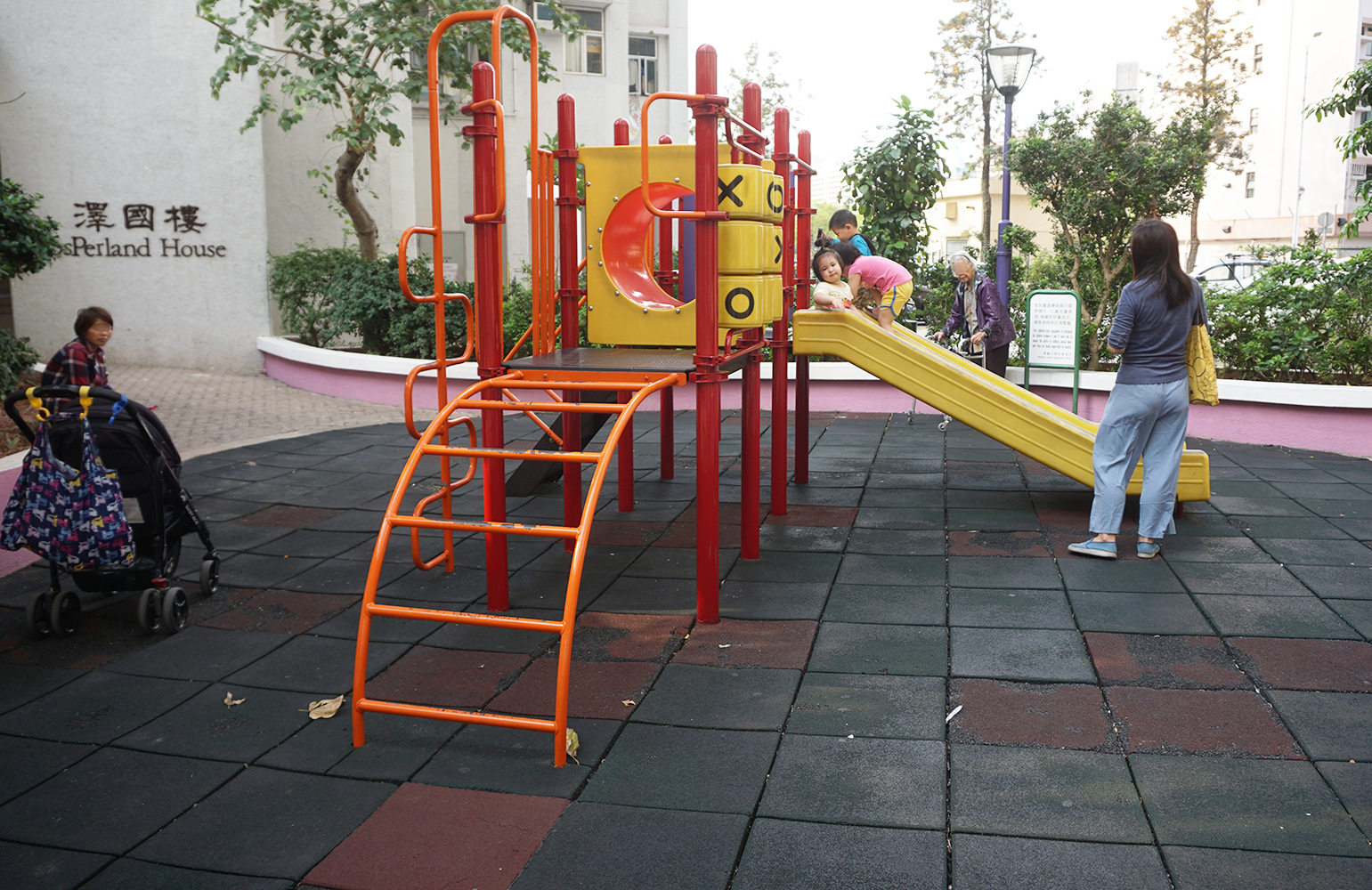 Affluence Garden in Tuen Mun, Hong Kong.